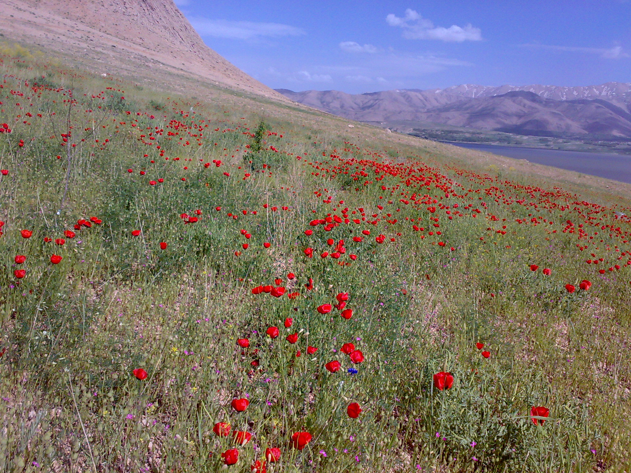 Plain filled with papavers, near the Chugha Khur wetland, Chaharmahal and Bakhtiari province, Iran.